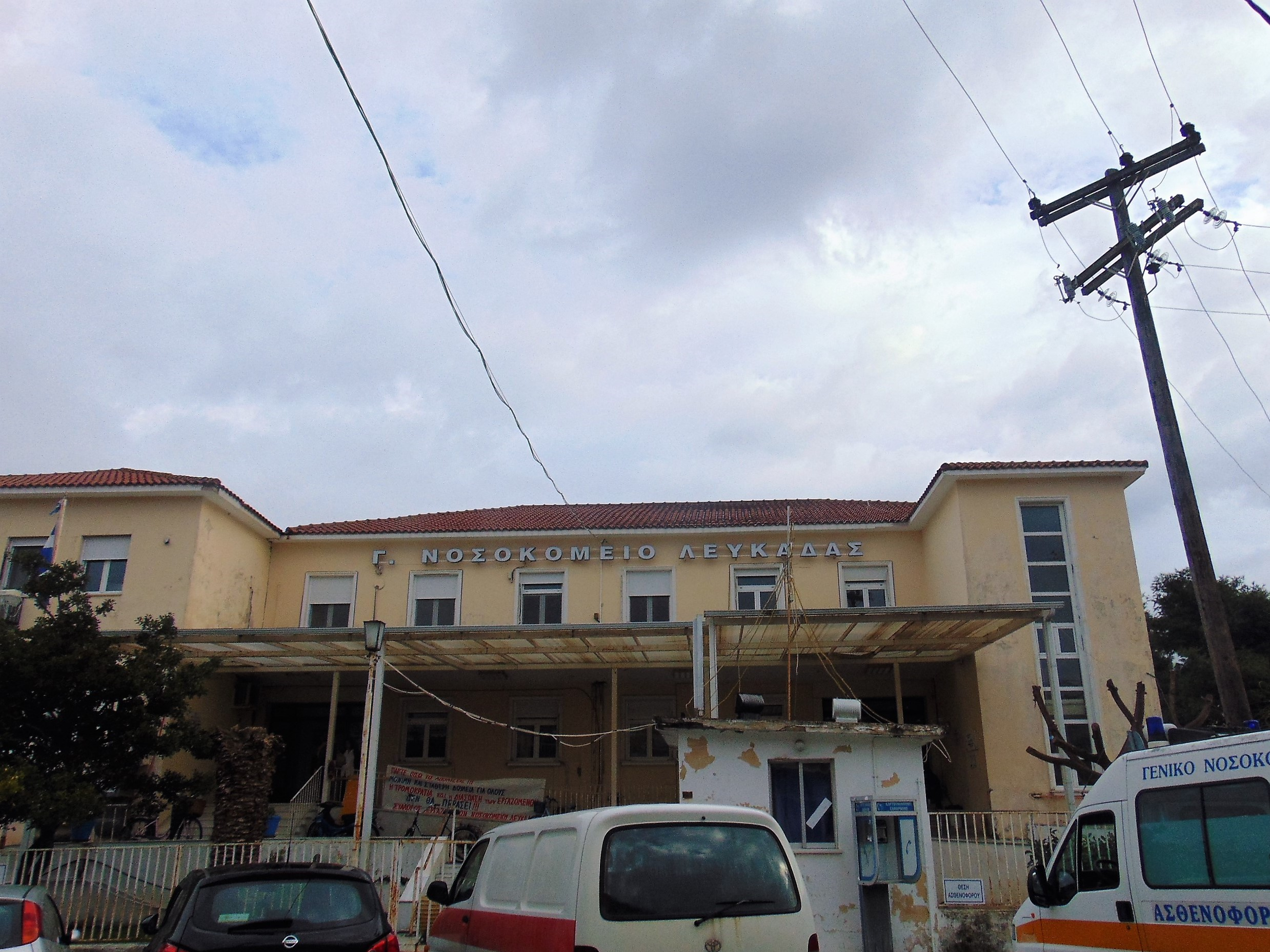 Lefkada hospital